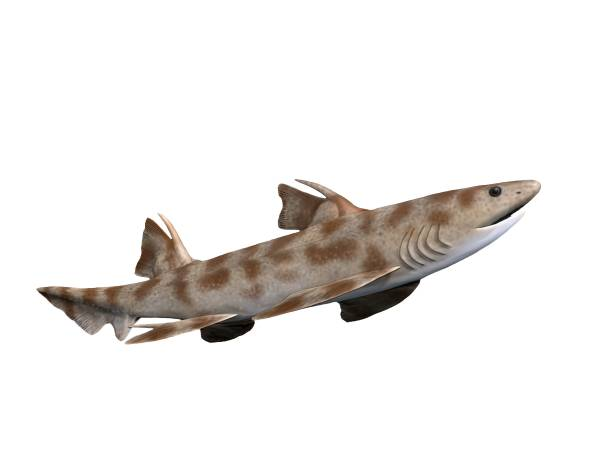 Life reconstruction of Tristychius arcuatus